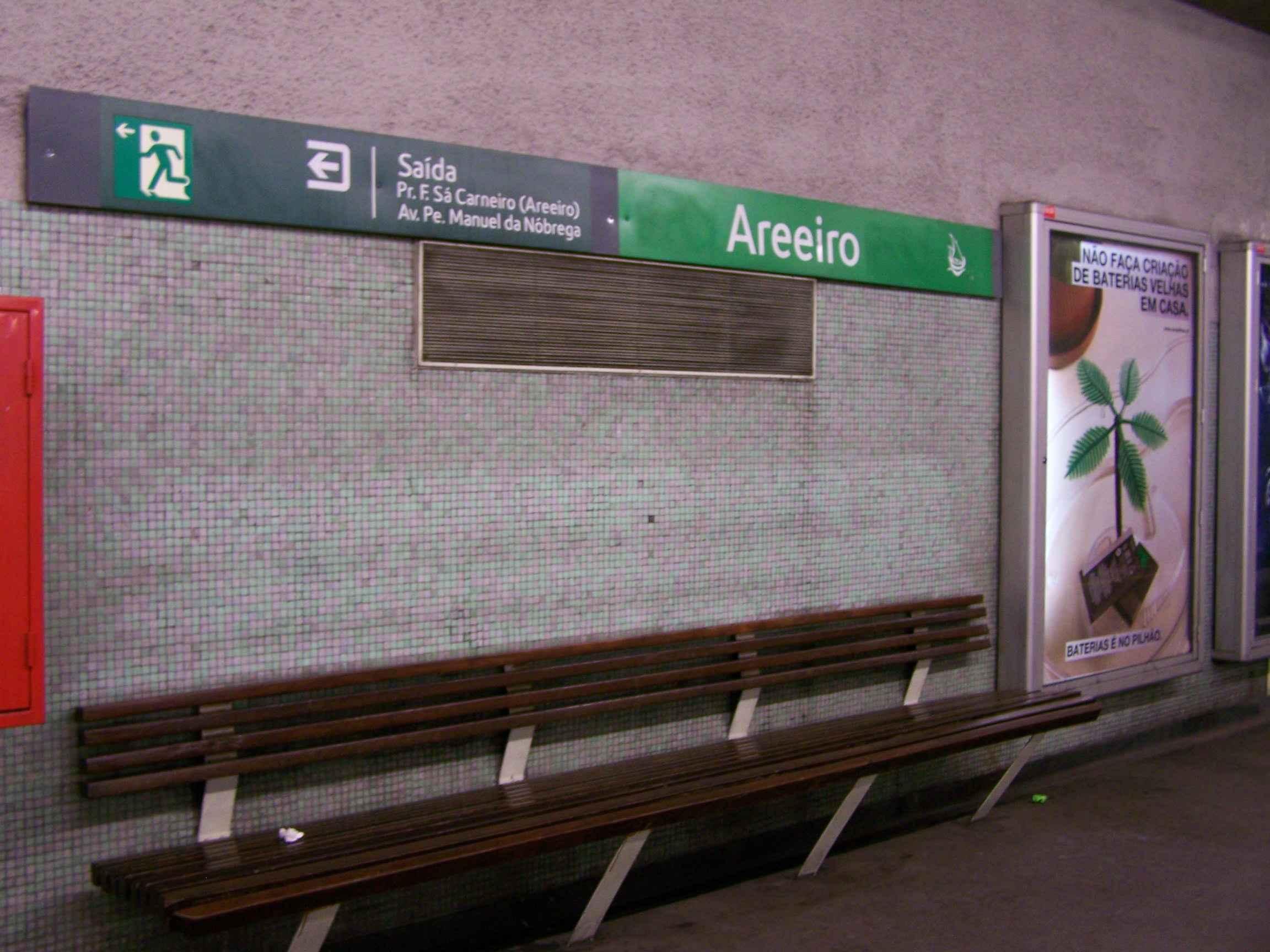 a bench in Lisbon's underground station Areeiro, green line